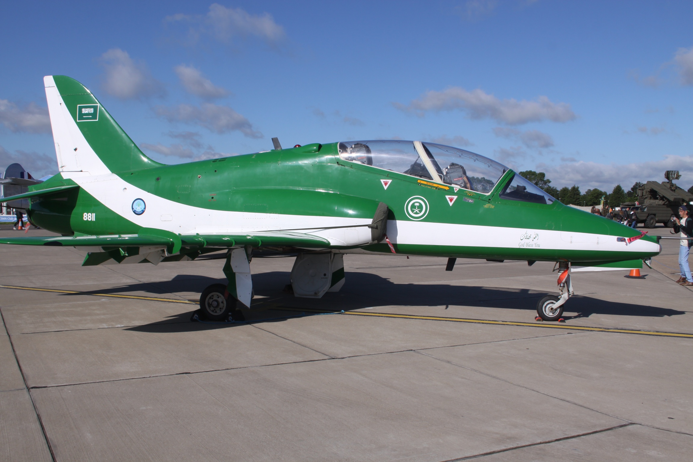 At RAF Waddington